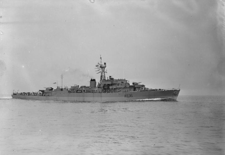 Photograph of British frigate HMS Carnarvon Bay.